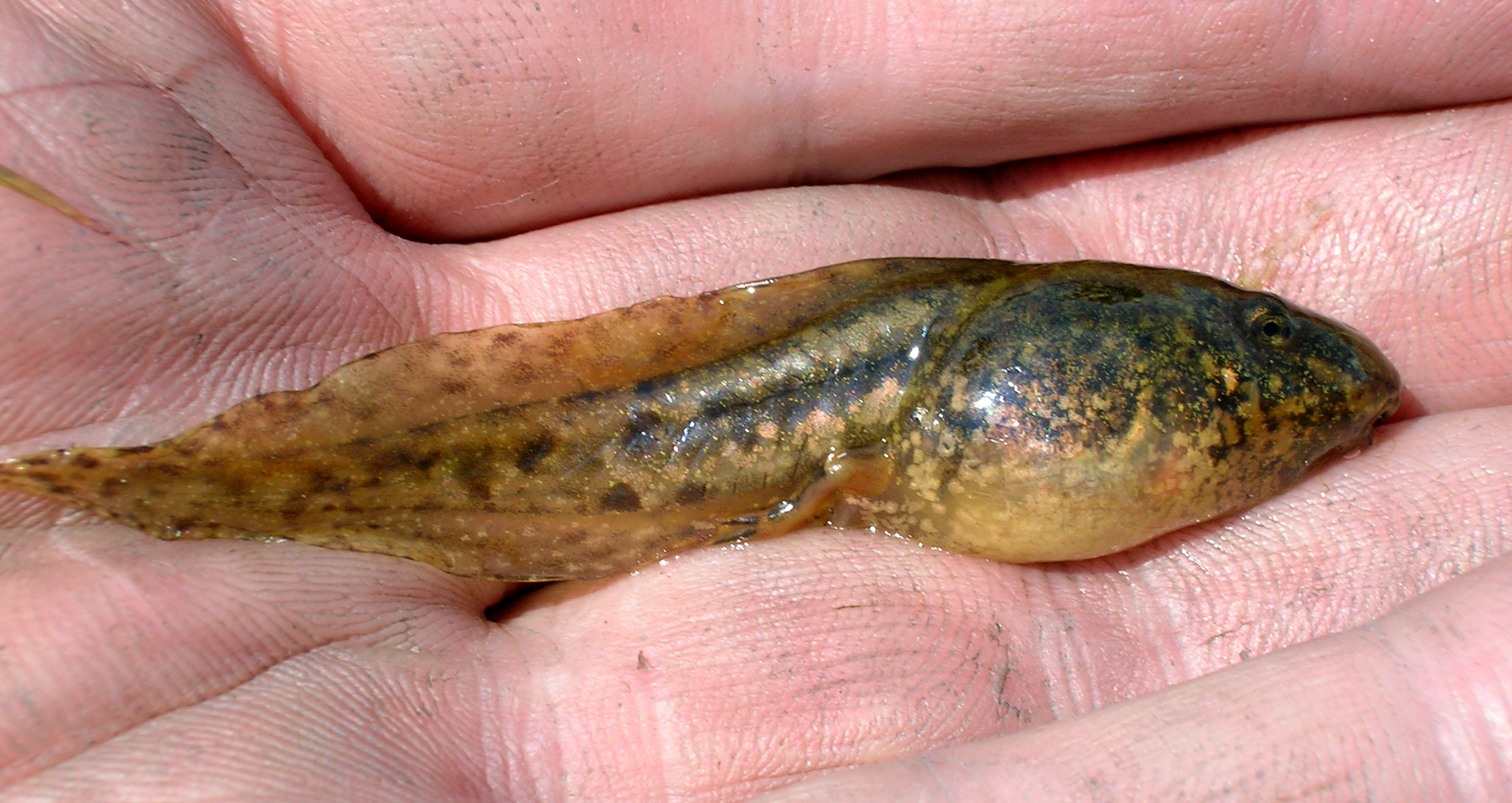 Tadpole of Edible frog (Rana kl. esculenta or Pelophylax kl. esculentus), the Netherlands